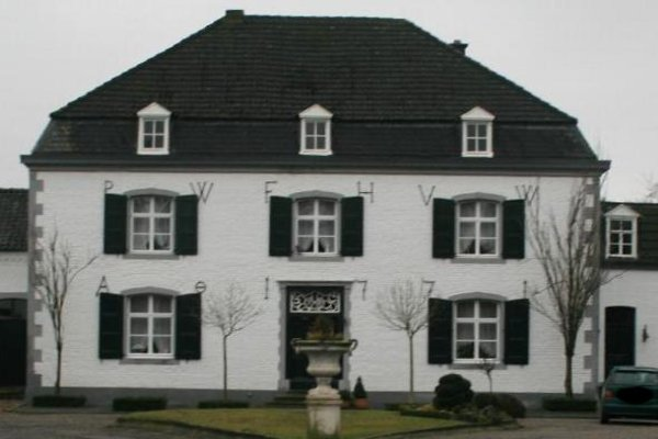 Cultural heritage monument No. 32 in Selfkant